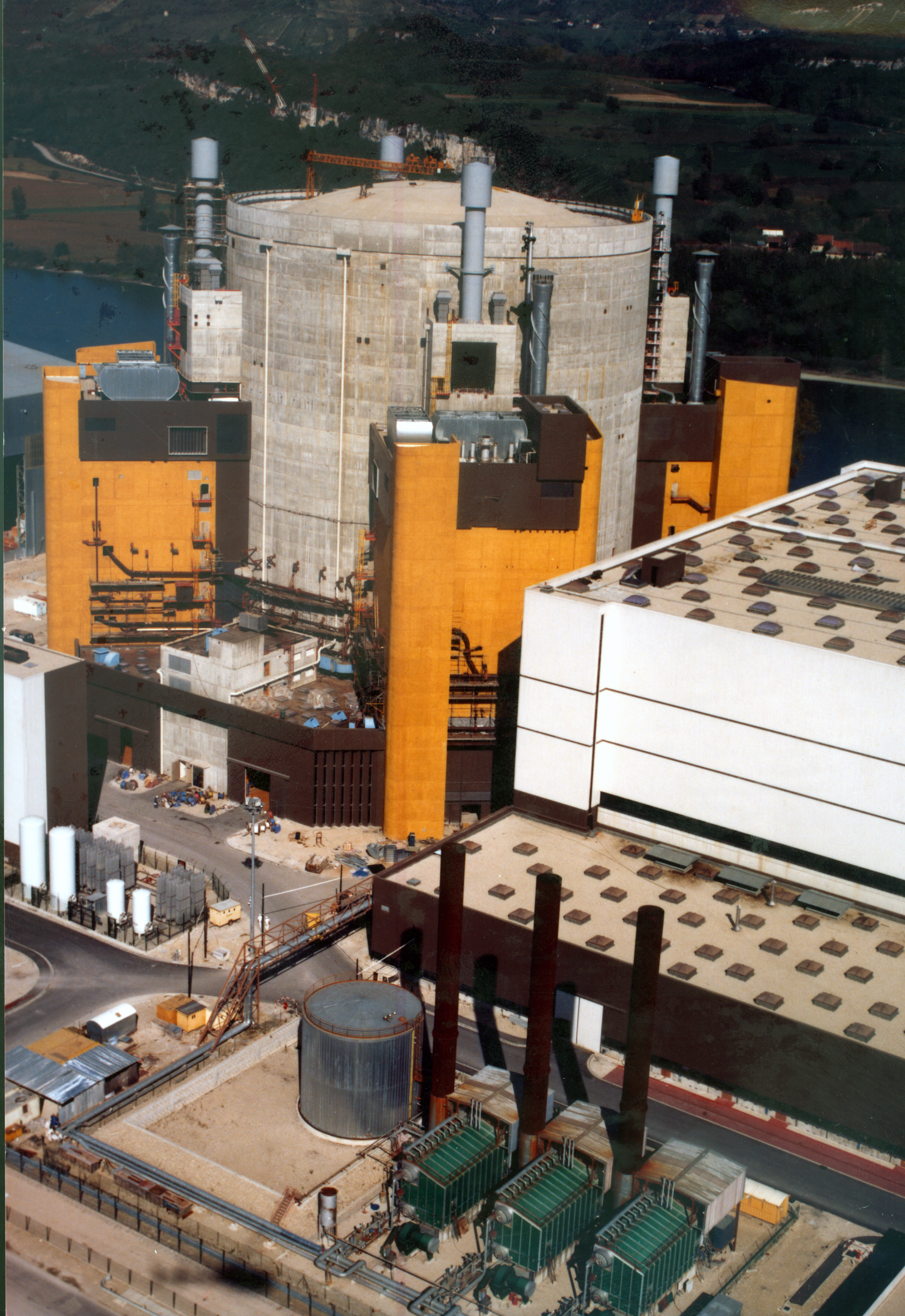 The reactor block of the Superphenix nuclear power plant. Creys-Malville. The Superphenix is a fast breeder reactor developed in France in the Isere department. Photo Credit: IAEA